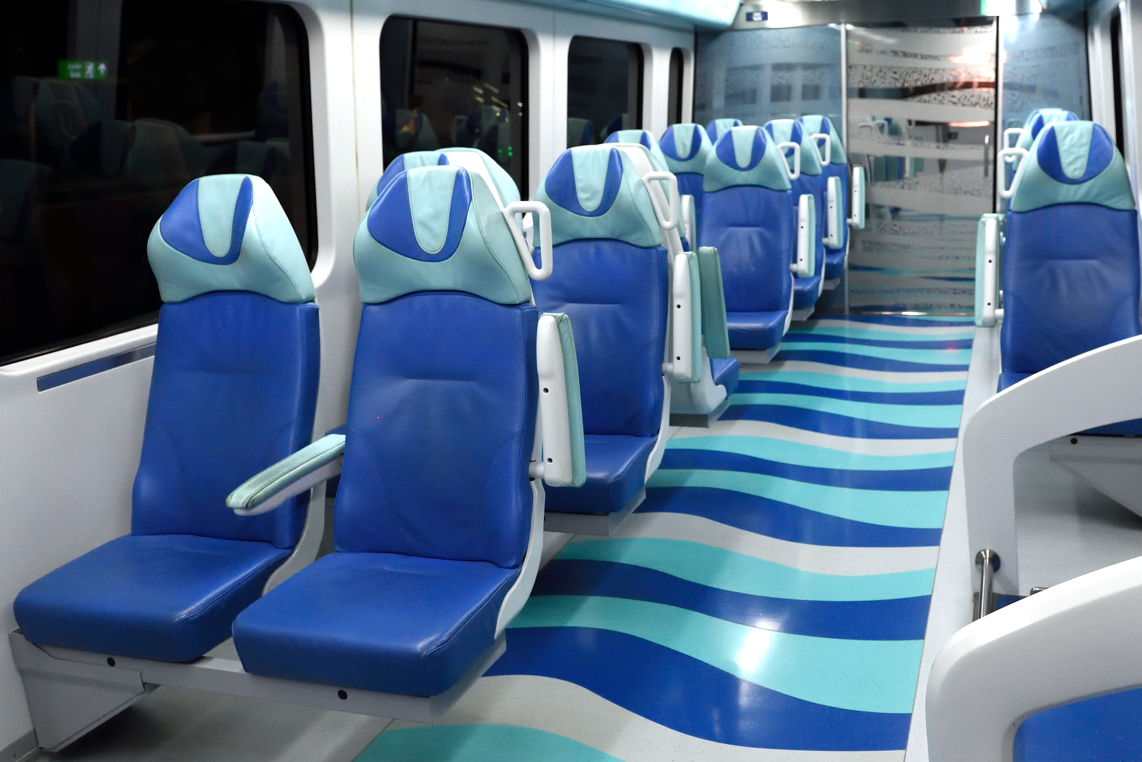 Interior of a "Gold Class" car of the Dubai Metro, photographed on January 10, 2015